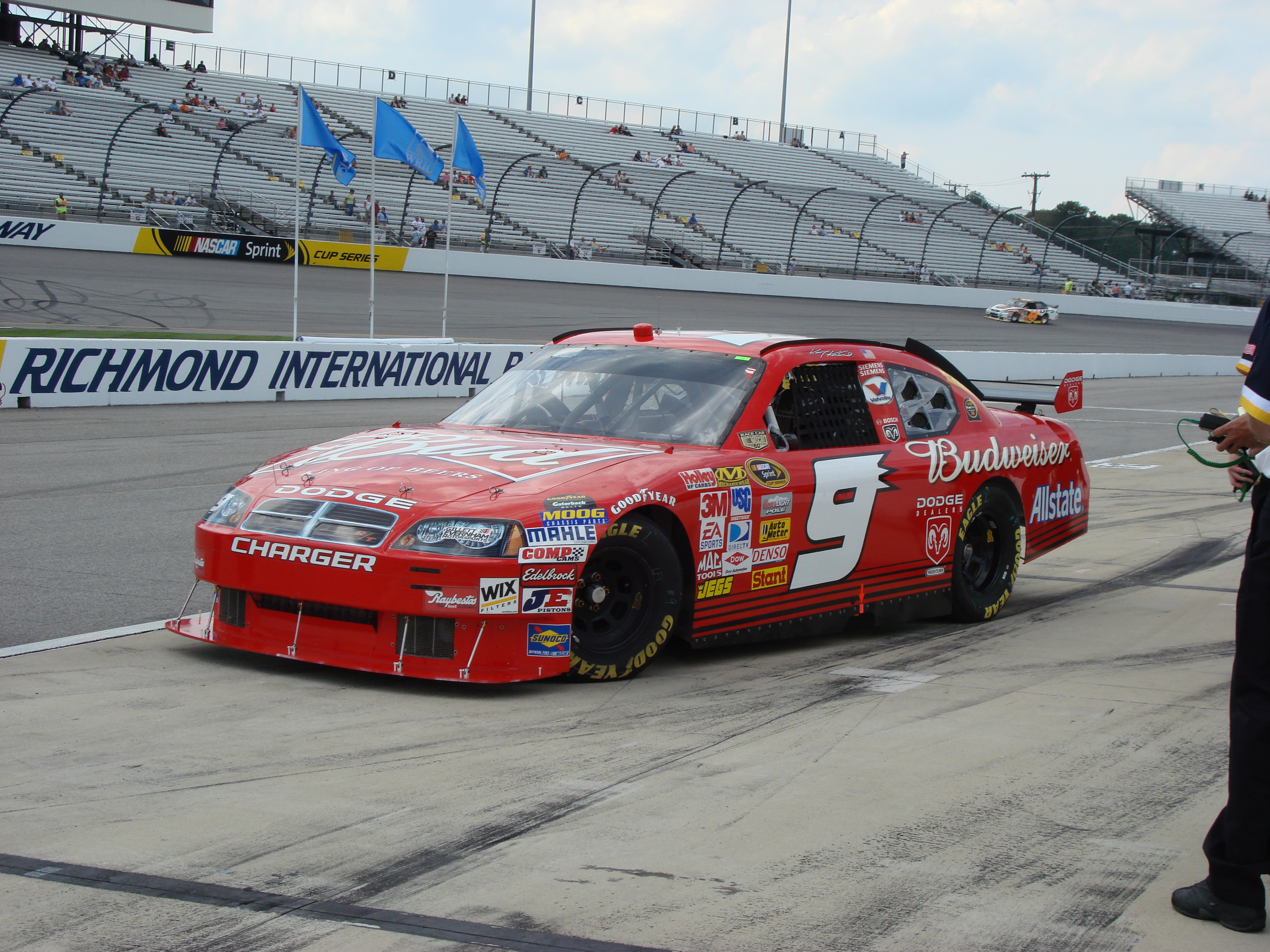 Kasey Kahne At the Practice for Chevy Rock and Roll 400 at Richmond International Raceway in 2008